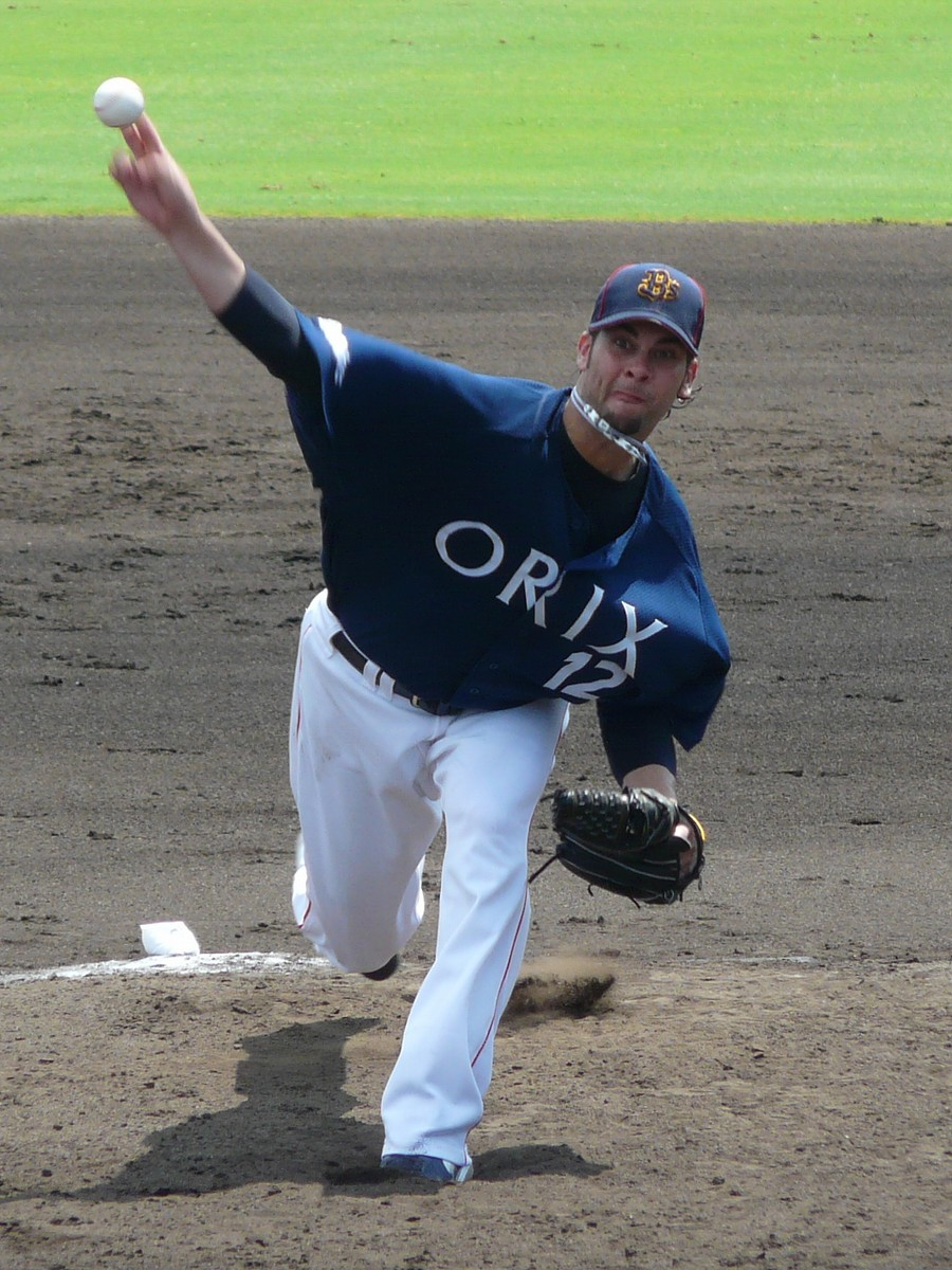 Ryan Vogelsong, pitcher of the Orix Buffaloes, at Hanshin Naruohama Baseball Ground.